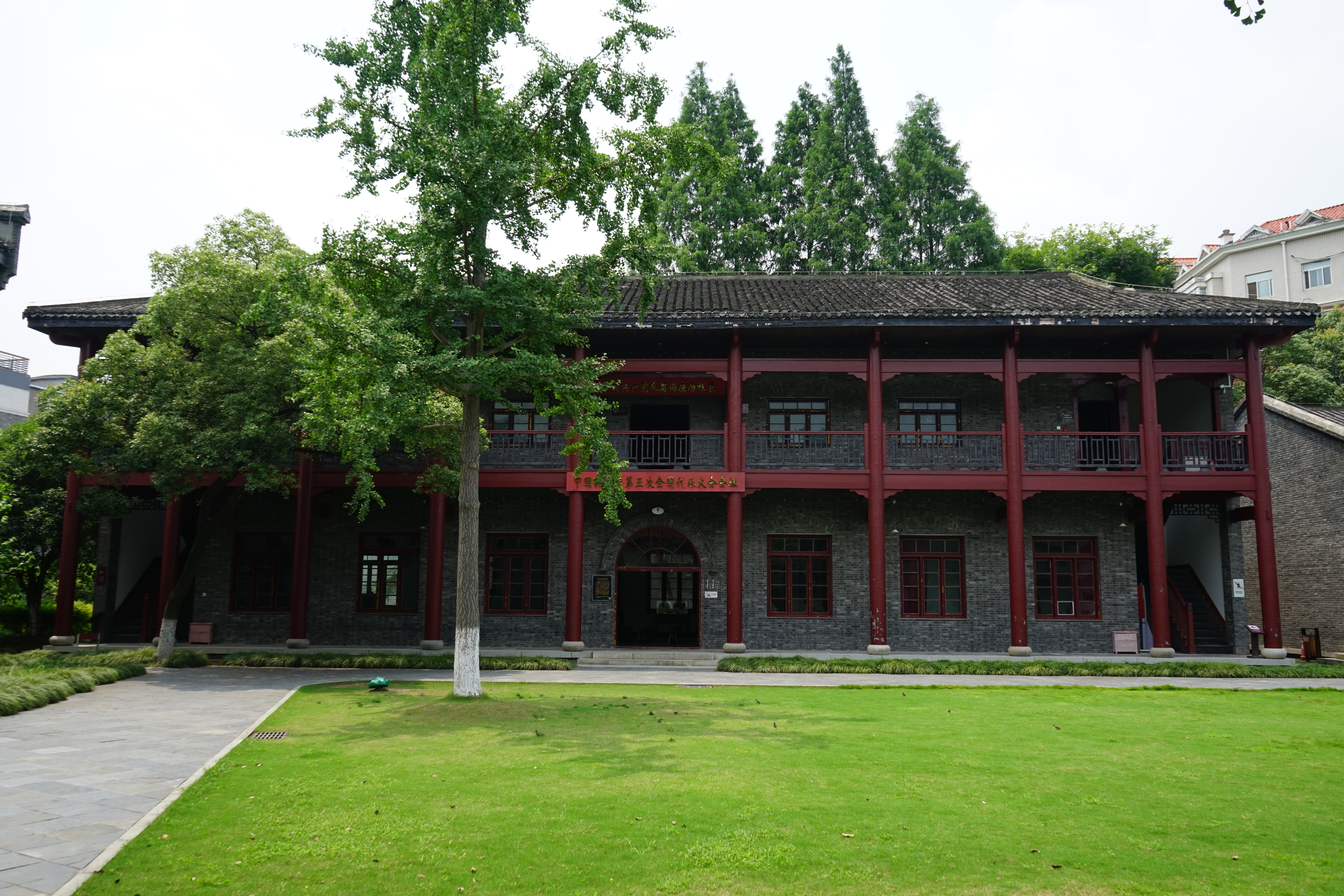 Meeting Place For the Openning Ceremany of the 5th National Congress of the CPC; Exhibition of the CPC's progress in Corruption Combating and a Clean-party